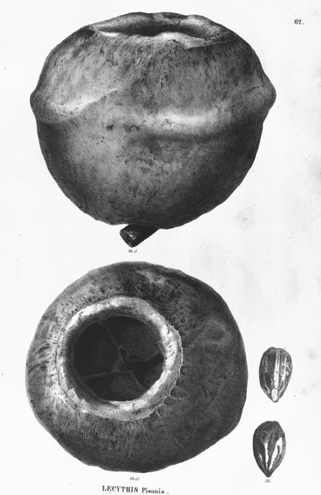 Illustration of Lecythis pisonis